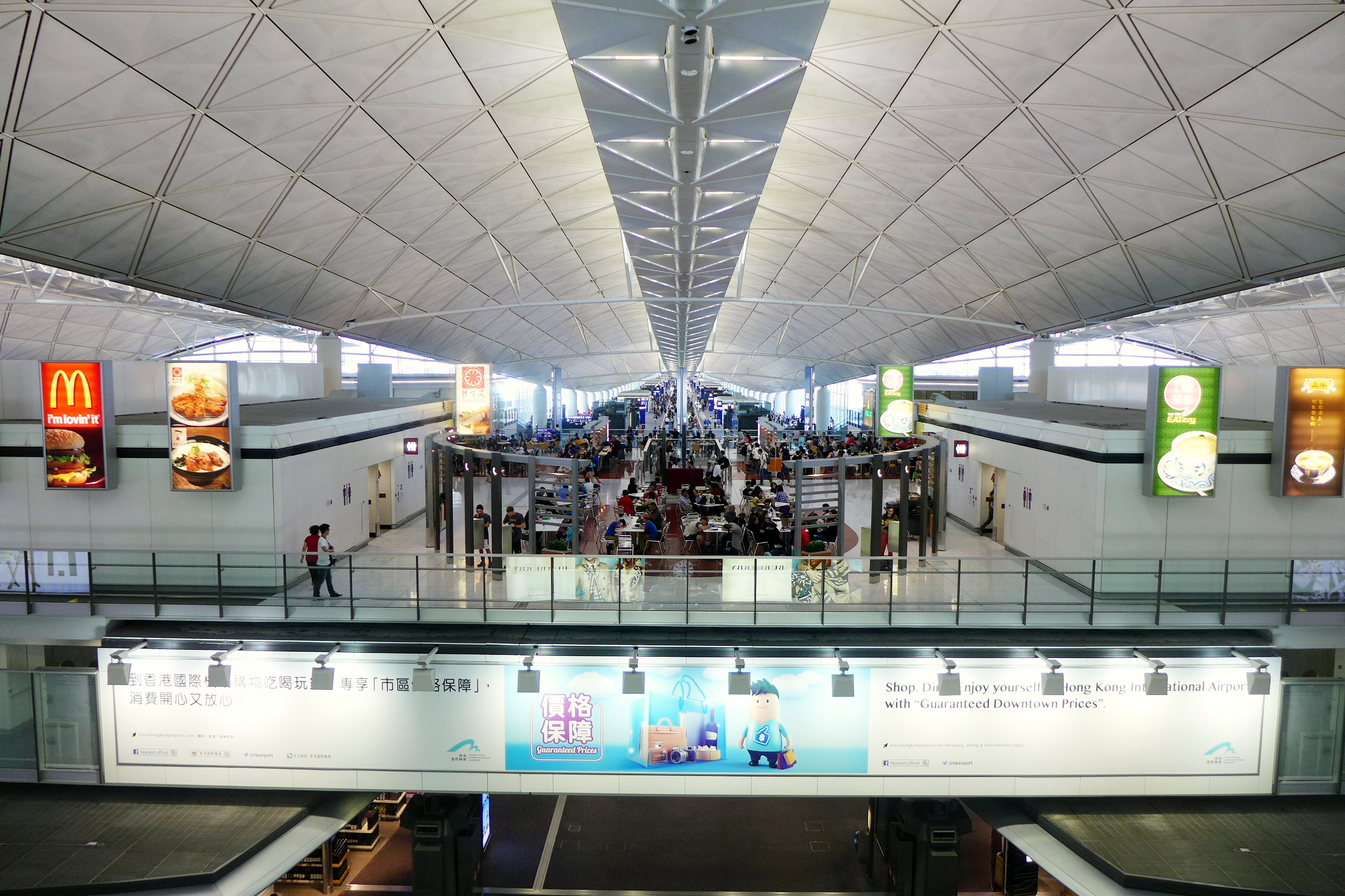 HKIA Terminal 1